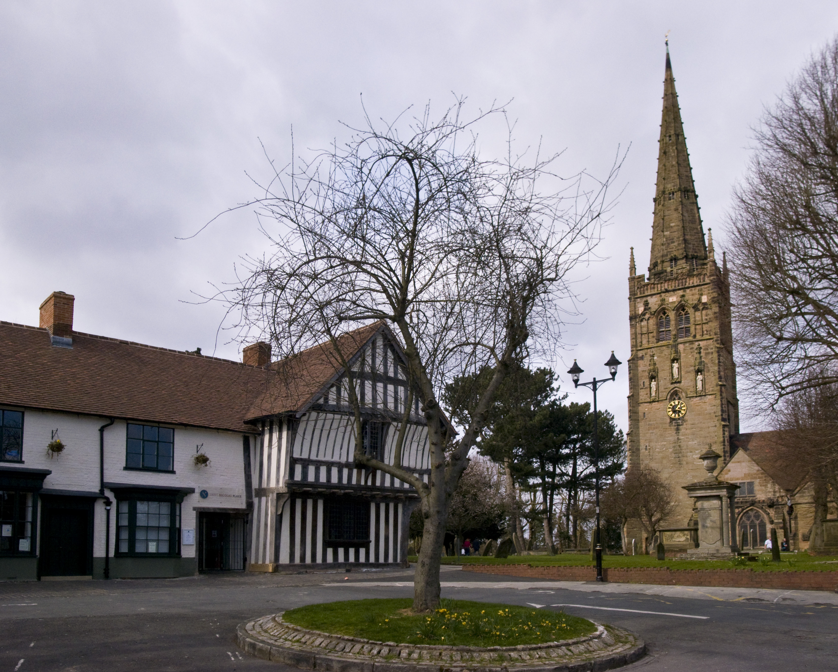 St. Nicolas' Church, Kings Norton, and the Saracen's Head, both part of Saint Nicolas Place, Kings Norton, Birmingham, England.